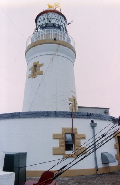 Muckle Flugga lighthouse Taken from within the courtyard.